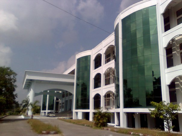 Edu building